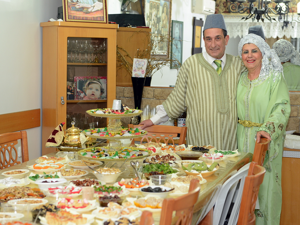 At the invitation of Ashkelon Mayor Benny Vaknin, U.S. Ambassador Dan Shapiro took part in Mimouna celebrations hosted by the Amar and Portal families in Ashkelon. The Ambassador donned holiday clothes, tasted holiday delicacies including mufleta pancakes, and welcomed the opportunity to take an active part in the traditional North African Jewish celebrations marking the end of the Passover holiday.